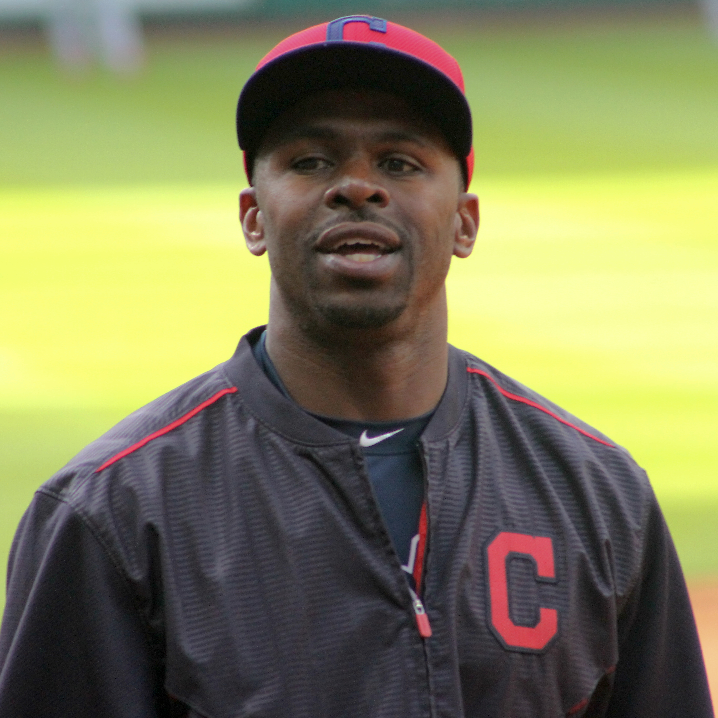 Professional baseball player Michael Bourn during a game in Houston in April 2015.